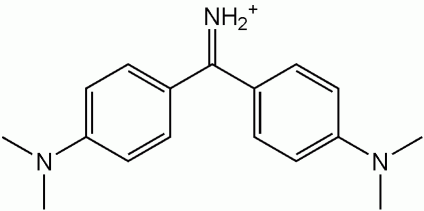 Description: Chemical structure of Auramine O Author, date of creation: selfmade by Shaddack, 5 November 2005 Source: self-made Copyright: Public Domain (PD) Comments: b/w hires PNG; ChemDraw